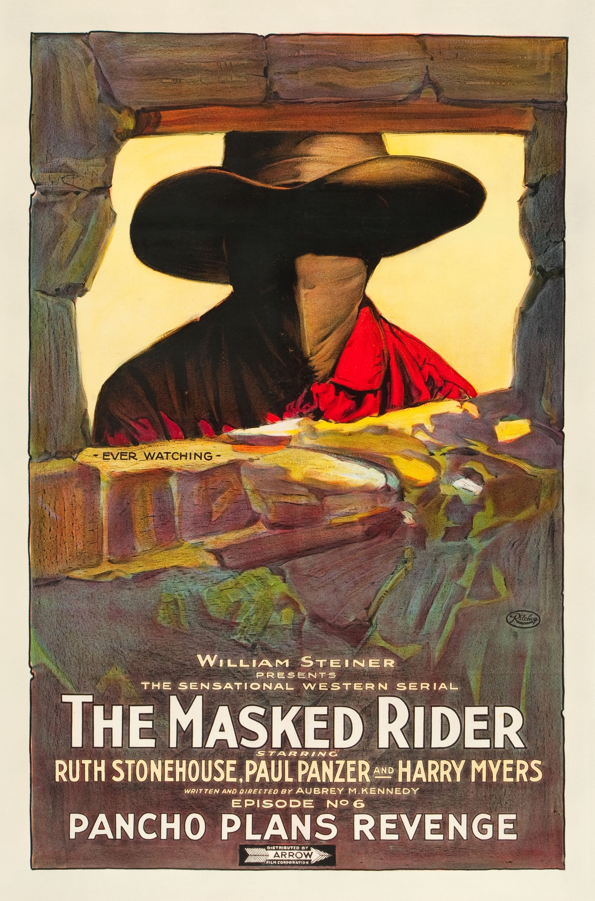 Film poster for the American western film serial The Masked Rider (1919).